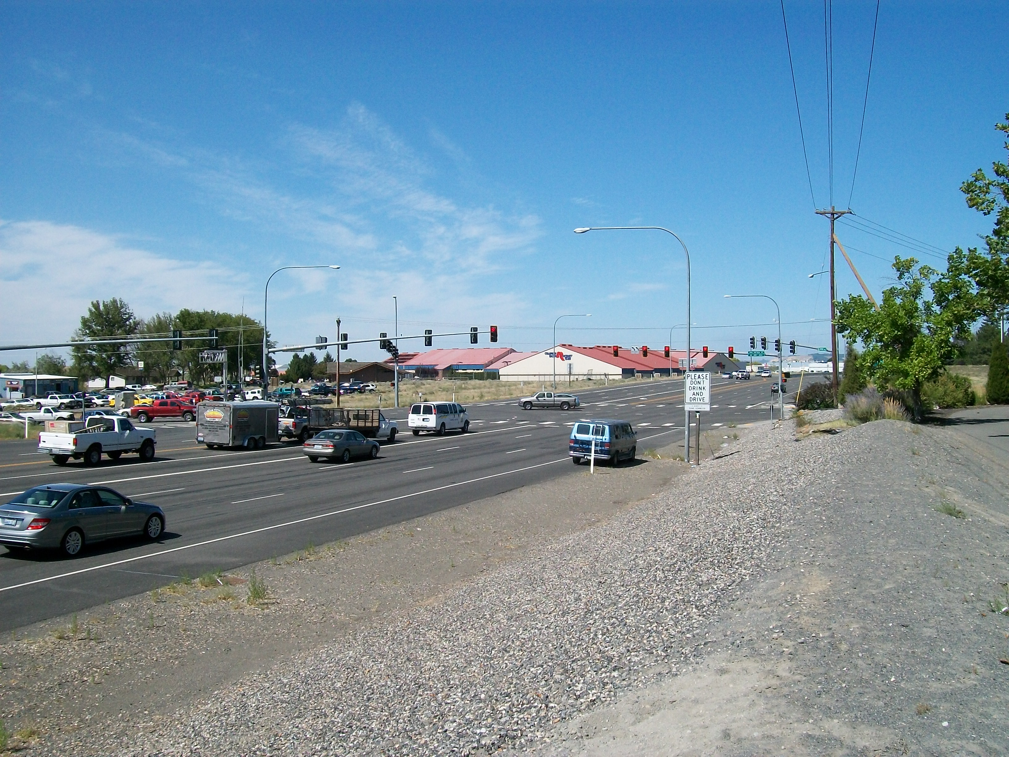 An intersection in Richland including the Bypass Highway (concurrent with Washington State Route 240), Van Giesen Street (concurrent west of the intersection with Washington State Route 224), and a railroad crossing.